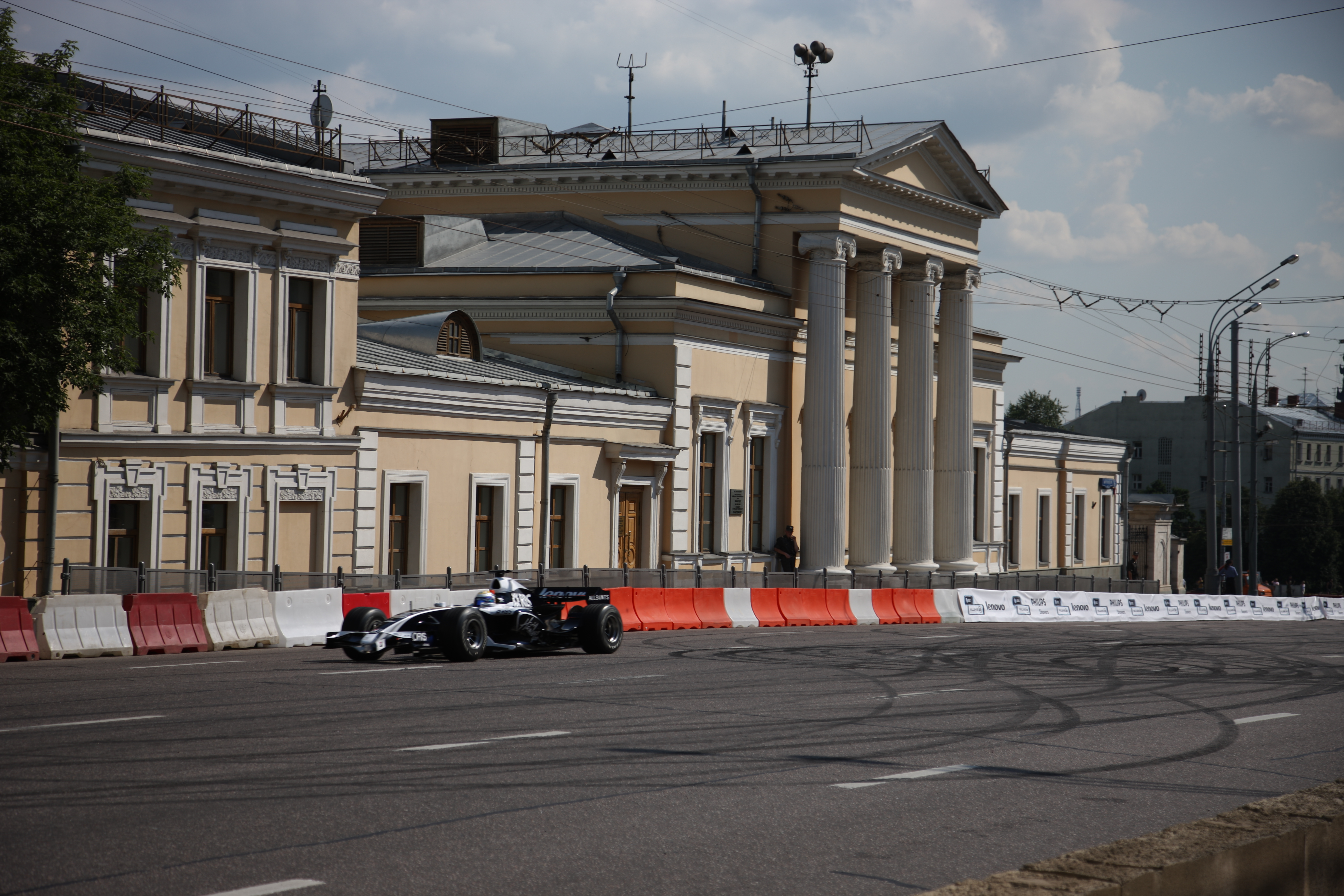 AT&T WilliamsF1 Team Driver Nico Rosberg, 2008 Moscow City Racing, Mokhovaya str.